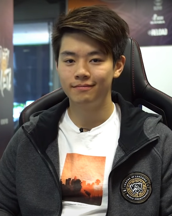 Canadian professional League of Legends player Andy "Smoothie" Ta in August 2018.